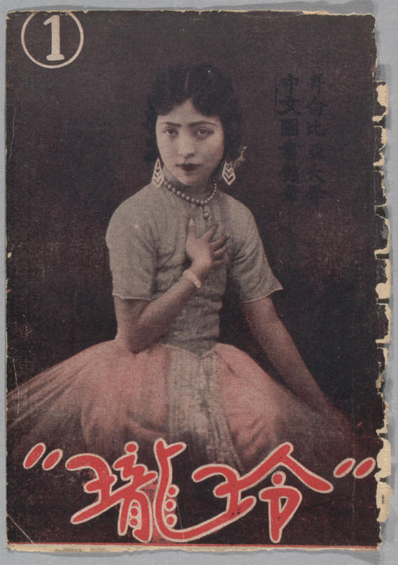 First issue of 玲 瓏 (Línglóng) magazine, a women's magazine from China, 1931-1937.